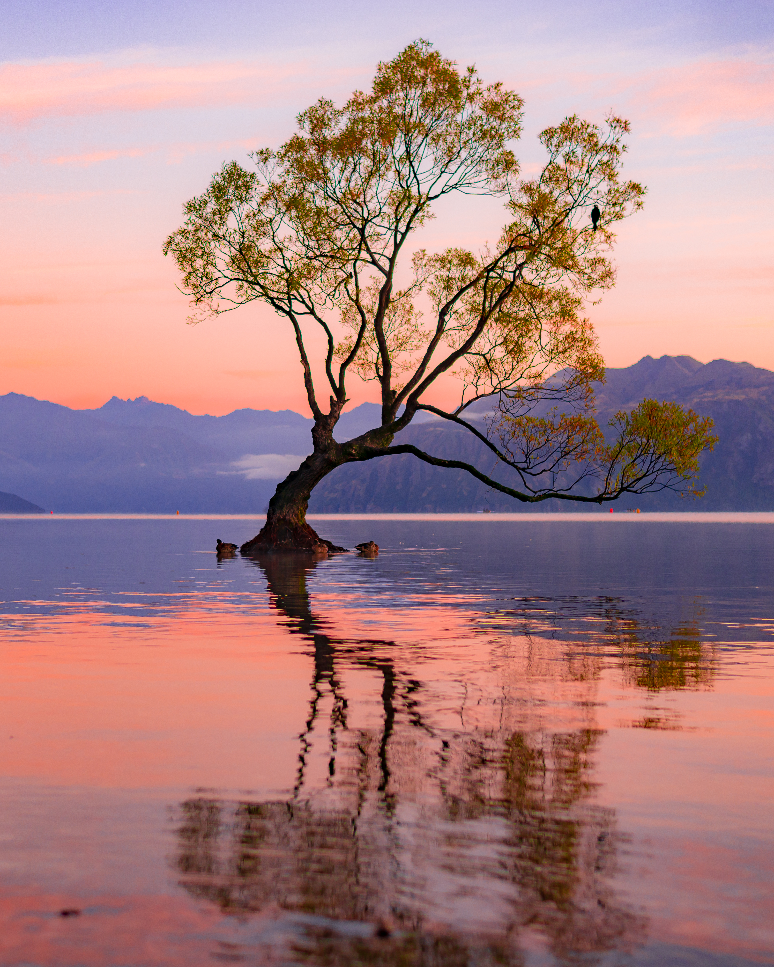 Sunrise on Lake Wanaka and view of That Wanaka Tree